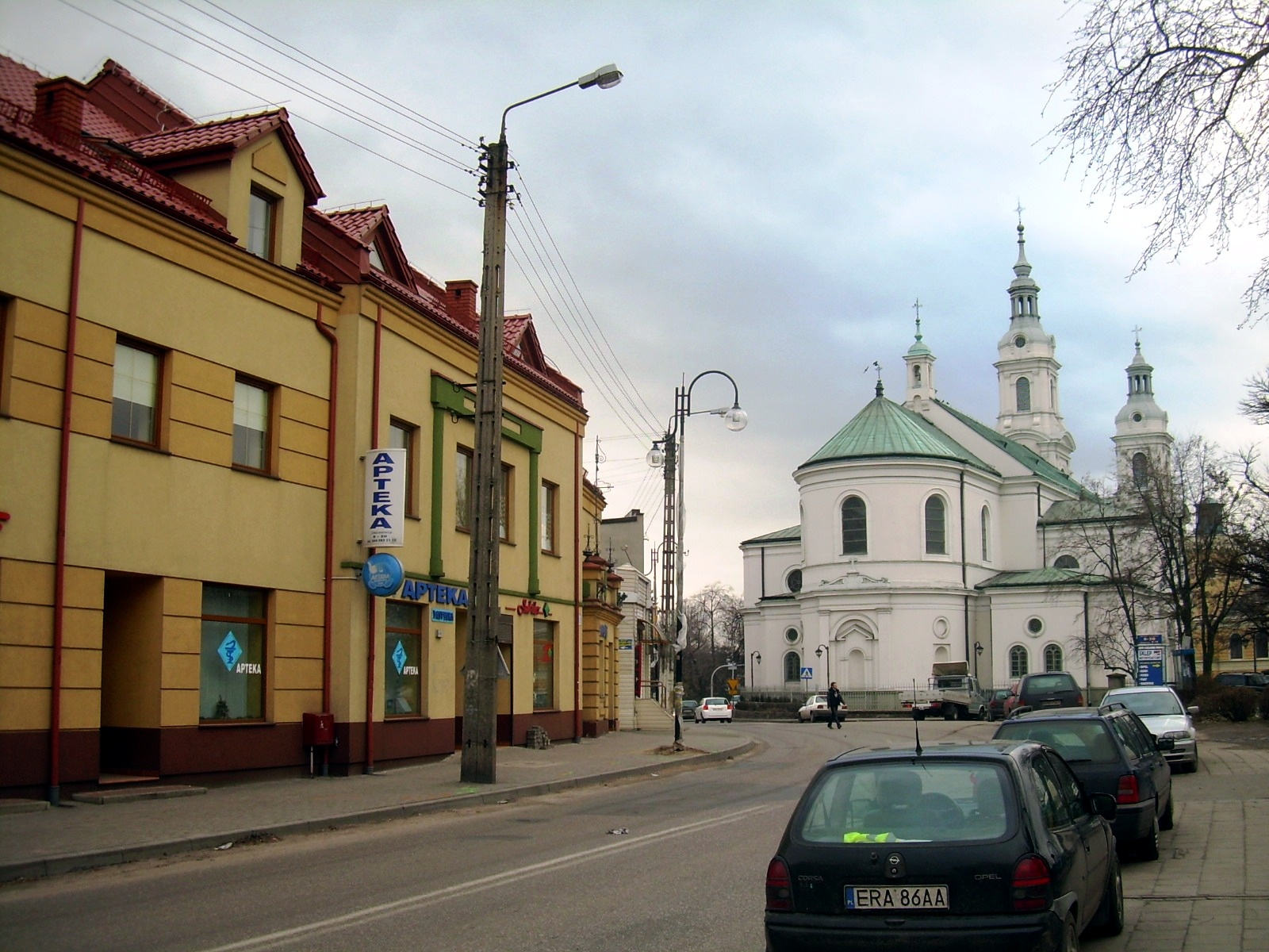 Przedborska Street in Radomsko (Poland).